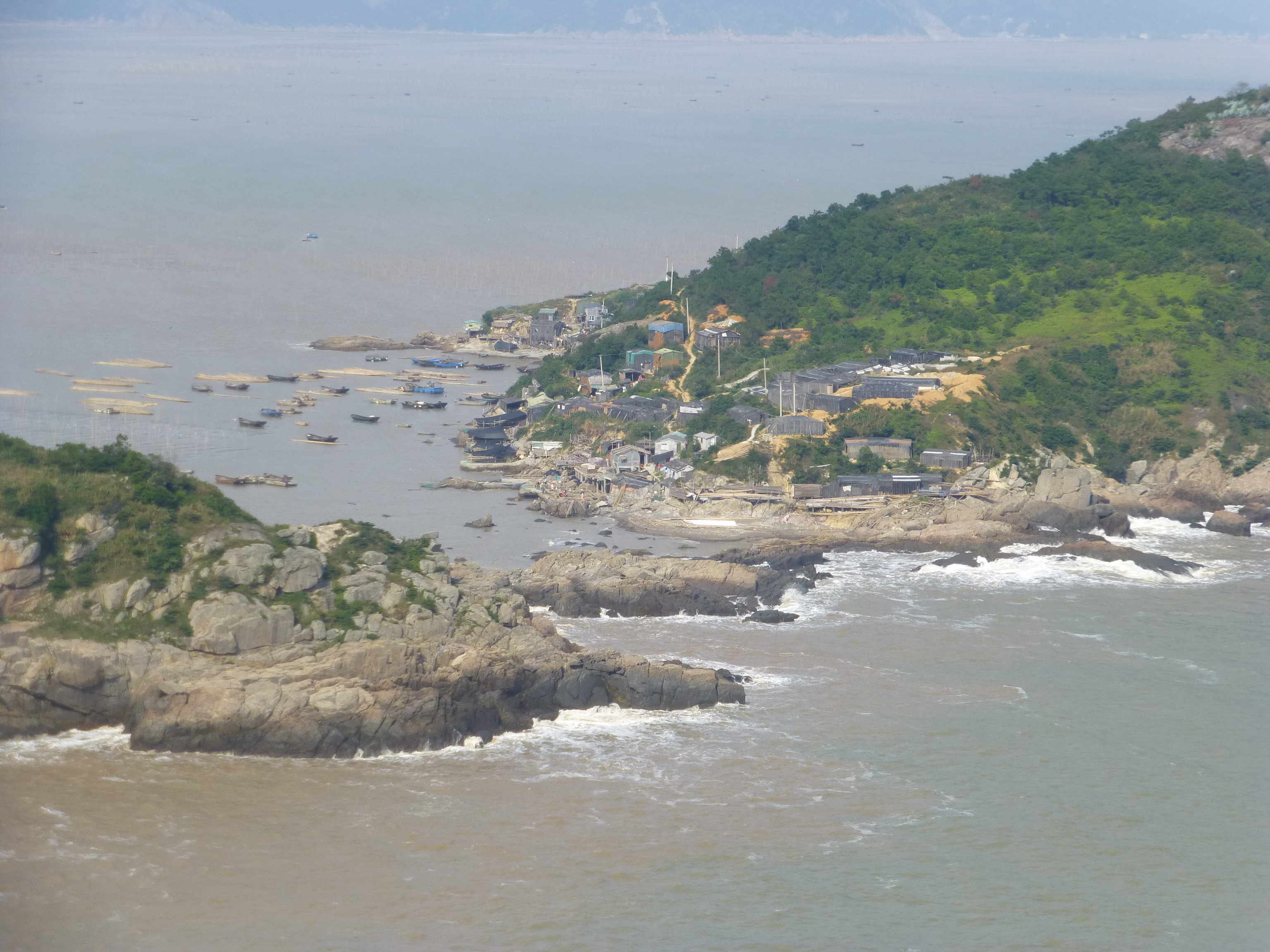 Damen Shan (大门山), a peninsula in Dayu Bay connected with the mainland by a very narrow and low isthmus (which may be covered with water in high tide) . Chixi Town, Cangnan County, Zhejiang, China.